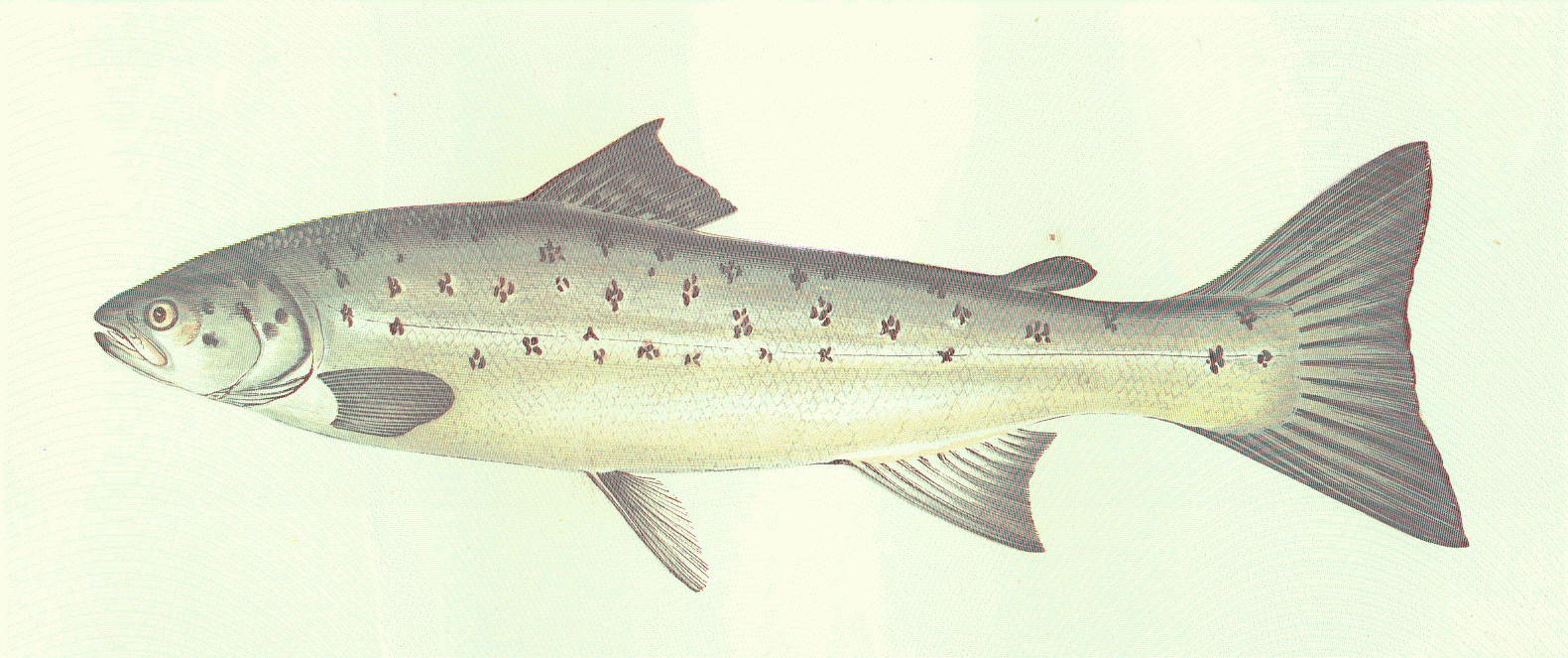 Peal Salmon Peal Bull Trout ? Salmo Trutta Scurf Trutta Salmonata Subject: Brown trout Tag: Fish